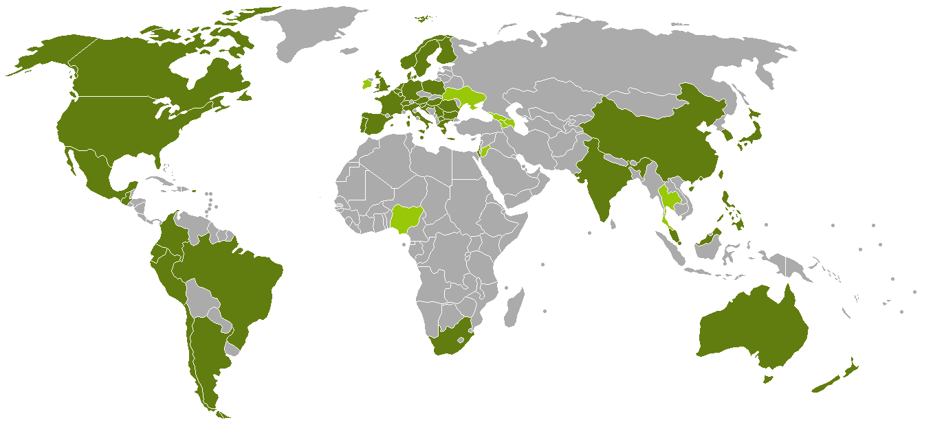 Map of countries to which Creative Commons International has ported CC licenses. (Dark green: ported; light green: being ported. Colors chosen from the official CC color palette.)